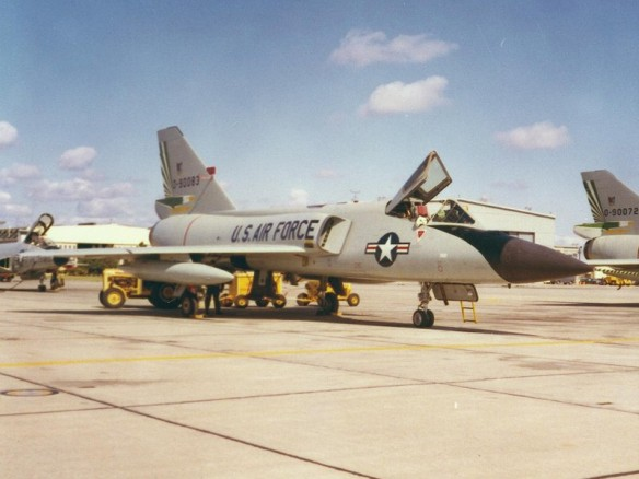 Two U.S. Air Force Convair F-106A Delta Dart fighters of the 49th Fighter Interceptor Squadron at Buckley Air Force Base, Colorado (USA), in 1970. The 49th was based at Griffiss AFB, New York (USA). The aircraft in front, s/n 59-0083 (c/n 8-24-212) was retired to the MASDC as FN0035 on February 1984. It was later converted to an QF-106A (AD143) and shot down by an AIM-120 on 18 May 1993. The F-106A s/n 59-0072 (c/n 8-24-201) on the right was retired to the MASDC as FN0094 on 18 July 1985. It was also converted to an QF-106A (AD123) and expended on 4 May 1994. In the background is a McDonnell F-101B Voodoo.